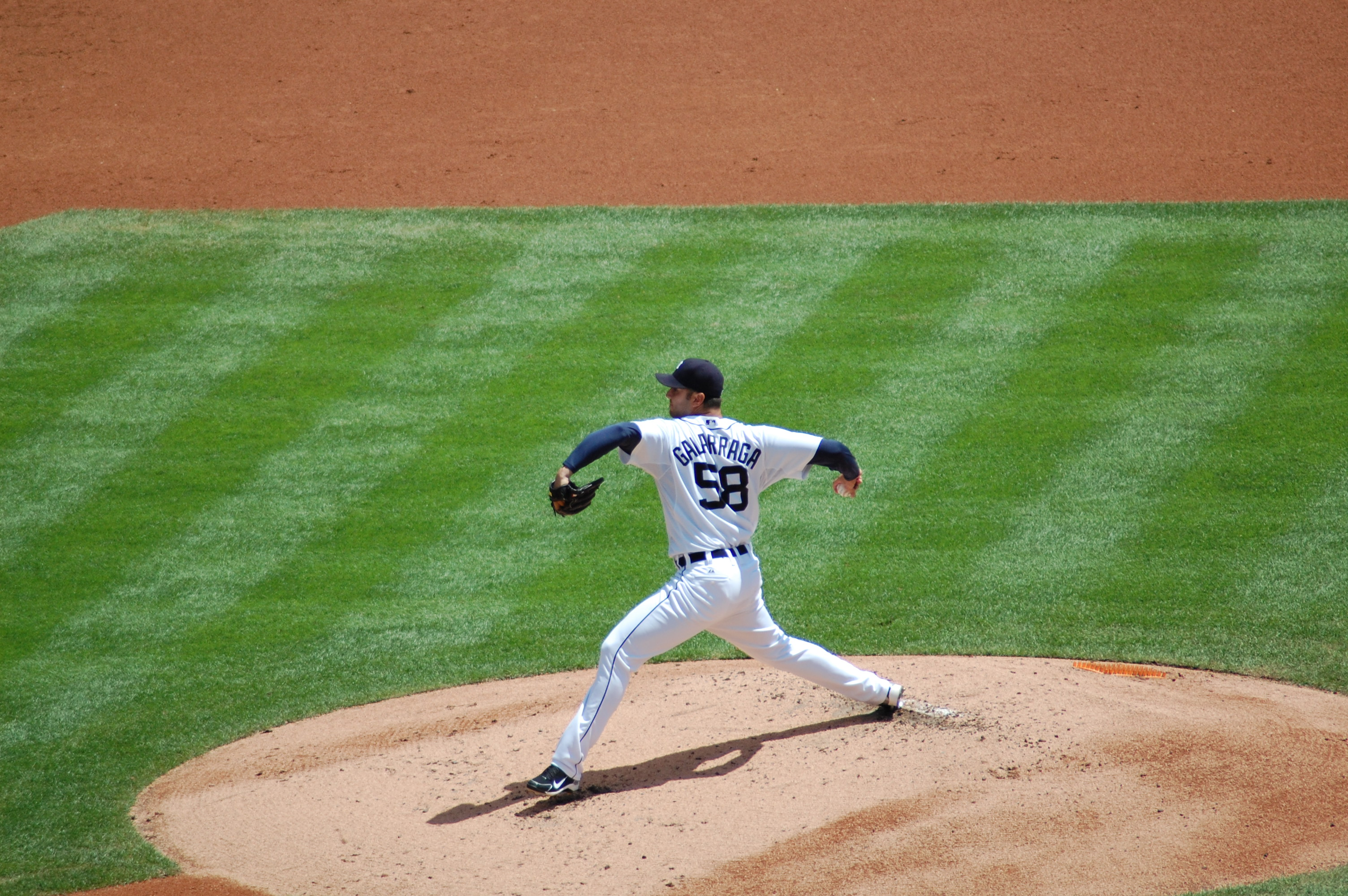 Armando Galarraga pitching during a Detroit Tigers game.